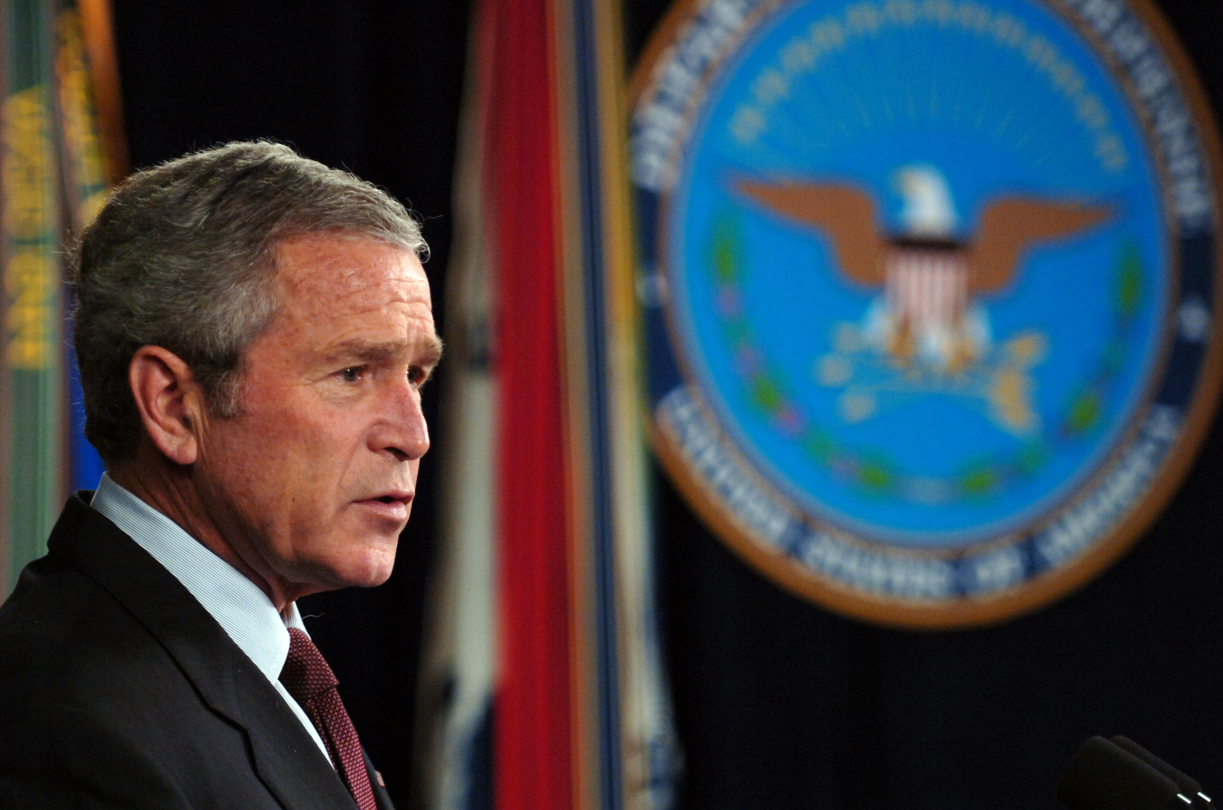 President of the United States George W. Bush speaks to reporters in the Pentagon, after he and members of his national security team were briefed on the latest developments in Iraq, Afghanistan and the global war on terror.